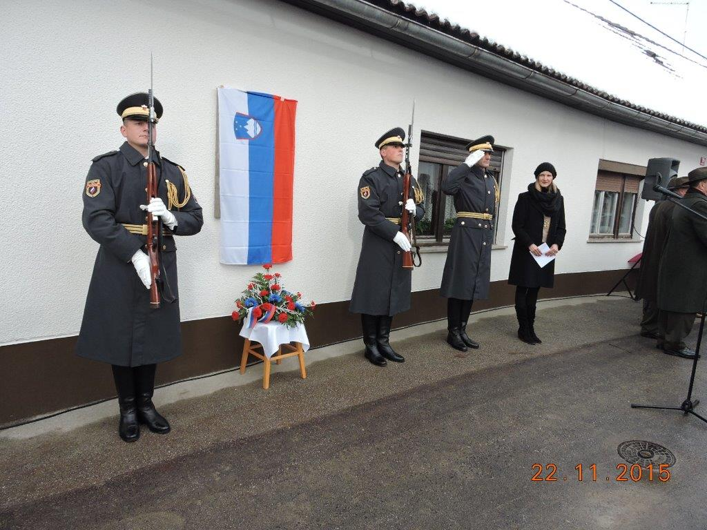 Discovery of the memorial plaque at the birth house of Jožko Slobodnik, Radovica, Slovenia.